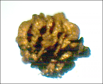 Seed Byblis gigantea 40x